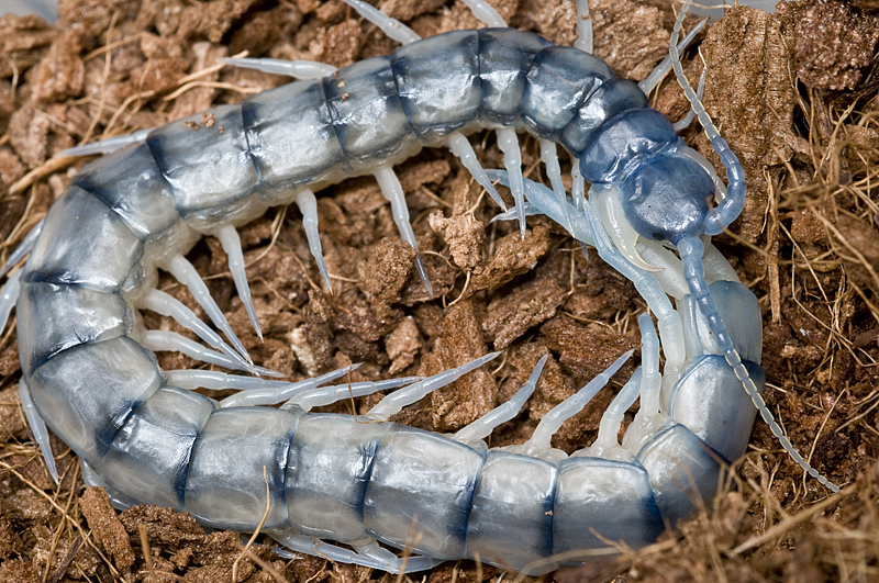 Scolopendra sp.